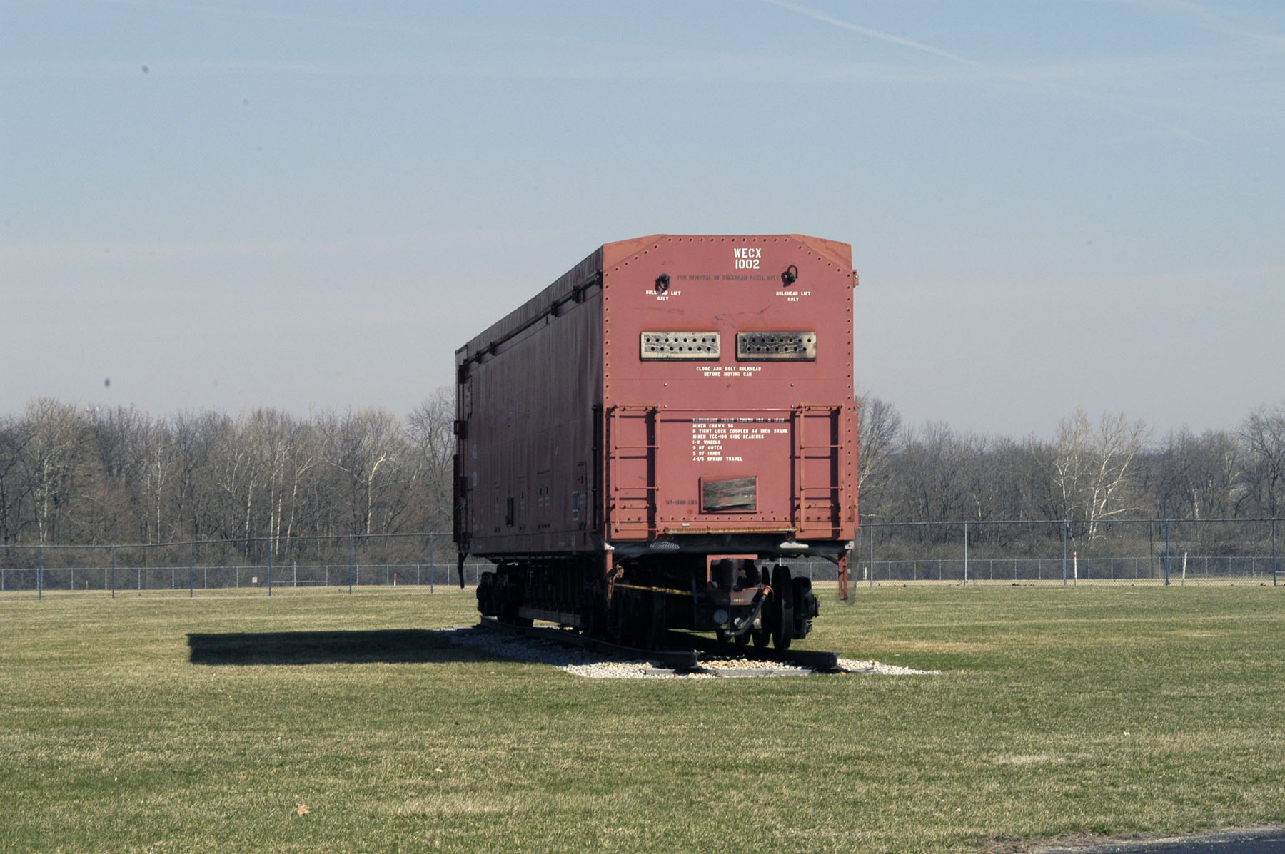 Peacekeeper (LGM-118) Rail Garrison Car at the National Museum of the United States Air Force.